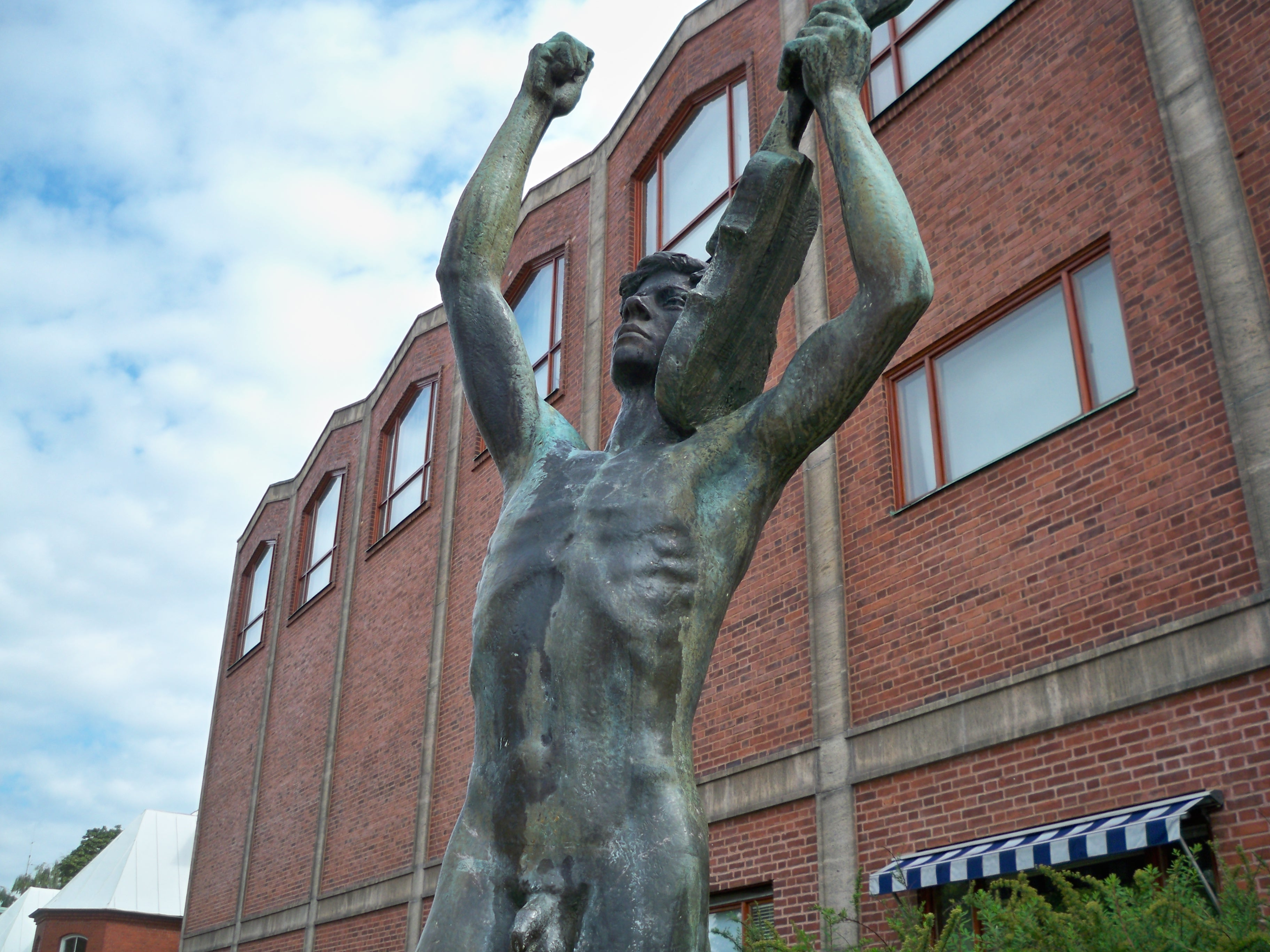 This sculpture by the Swedish sculptor Eric Grate (1896-1983) is called Folkvisan (Folk song). It was made in 1937, and was inaugurated in 1949 by the entrance of Bäckängsgymnasiet, a high-school of arts subjects and the humanities, in the city of Borås, Sweden.